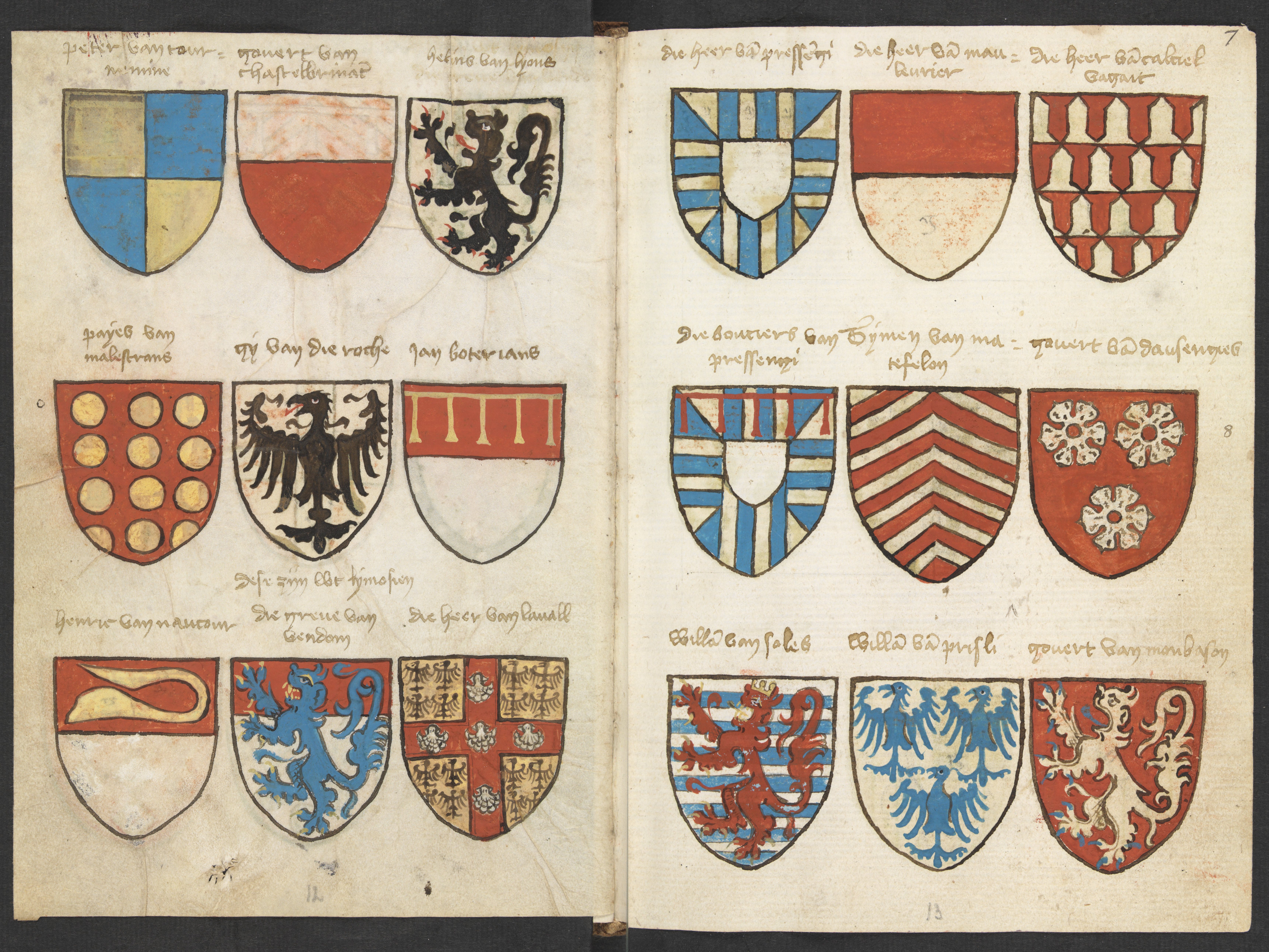 Lefthand side folio 006v; righthand side folio 007r from the Beyeren armorial / Wapenboek Beyeren